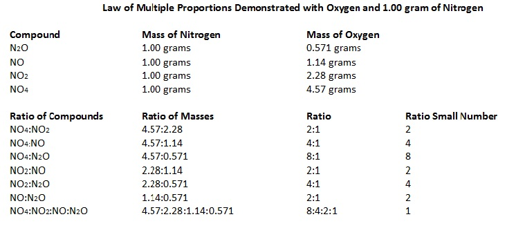 The law of multiple proportions demonstrated with oxygen and 1.00 gram of nitrogen